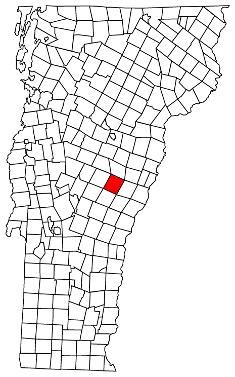 Description: Map of Vermont towns with Tunbridge highlighted Source: Map created by Jared C. Benedict on 26 March 2004. Copyright: © Jared C. Benedict.